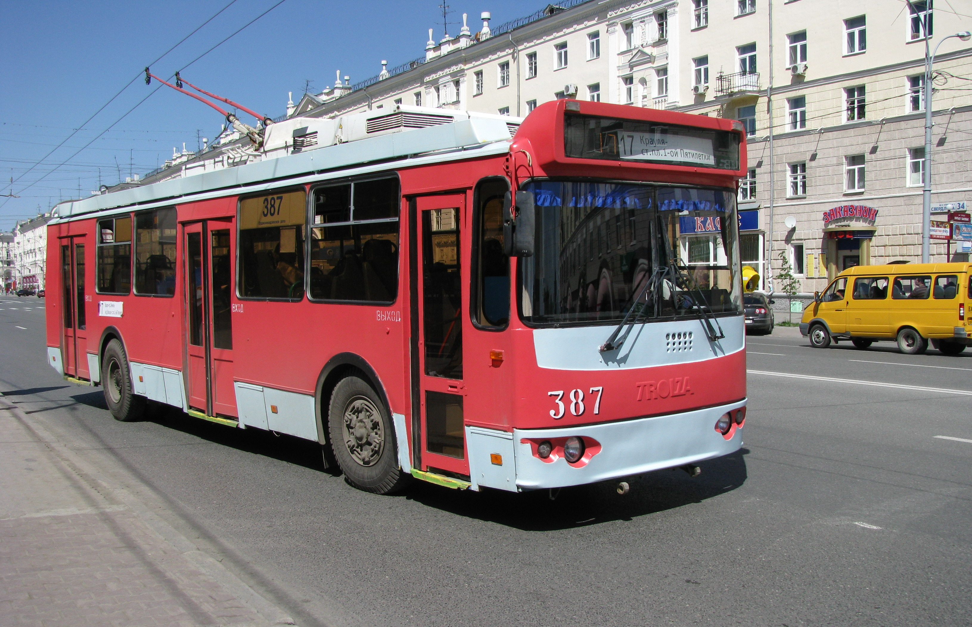 A trolleybus produced by the TrolZa factory in Engels, seen on Sverdlov Street in Yekaterinburg